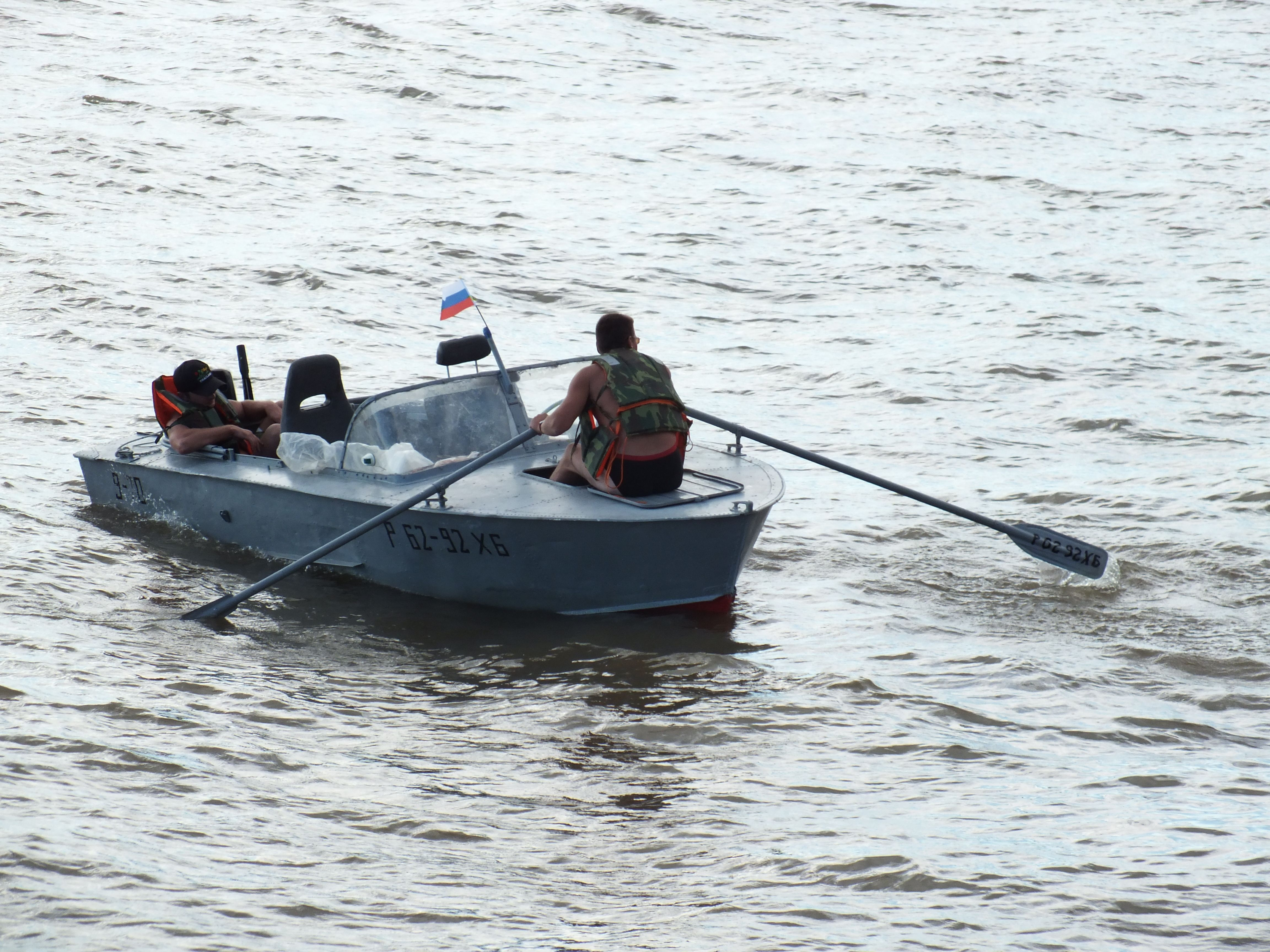 Amur River